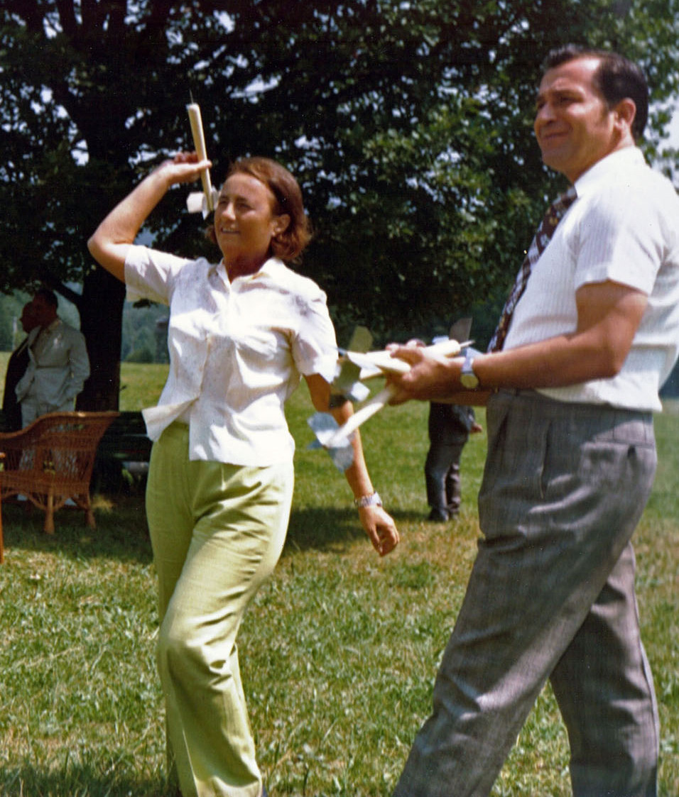 Ion Iliescu and Ceausescu Family